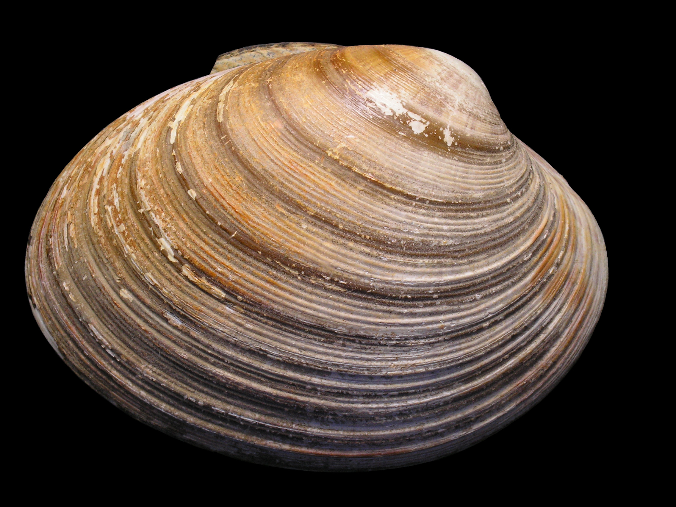 Callista brevisiphonata from Japan (Family Veneridae)